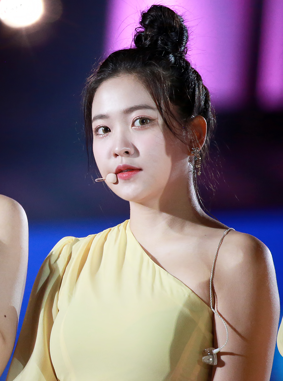 Kim Yeri at Trans Korean Wave in Jakarta on April 27, 2019.